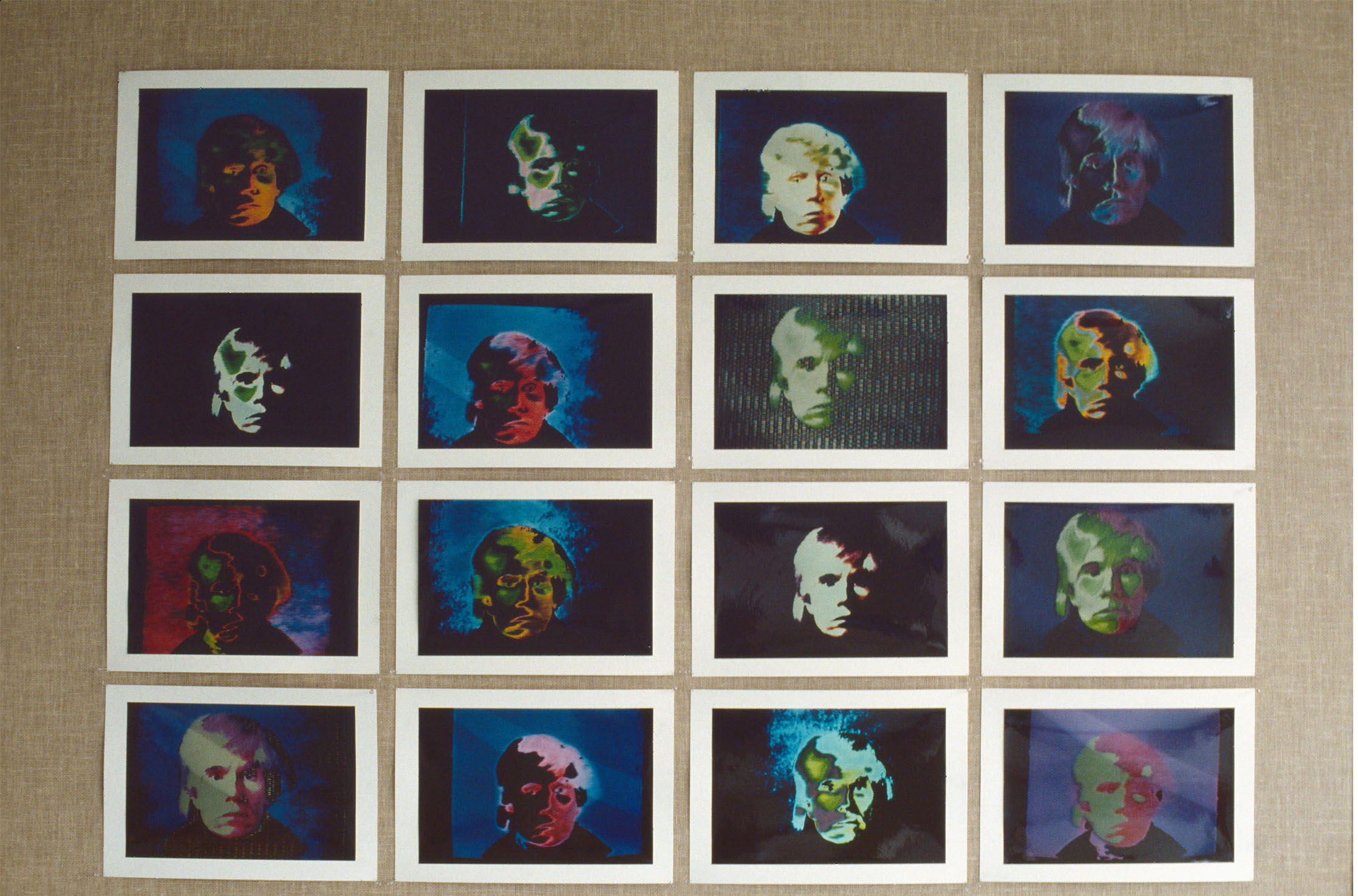 recorded Warhol footage, distorted by creative use of correction tools like Drop-out Compensators and Time Base Correctors, again photographed and printed